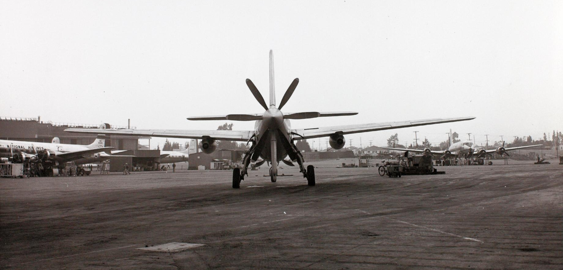 Rear view of the Douglas XB-42A "Mixmaster" before a test flight at Muroc Army Airfield, May 1947. C-54 Skymasters in background